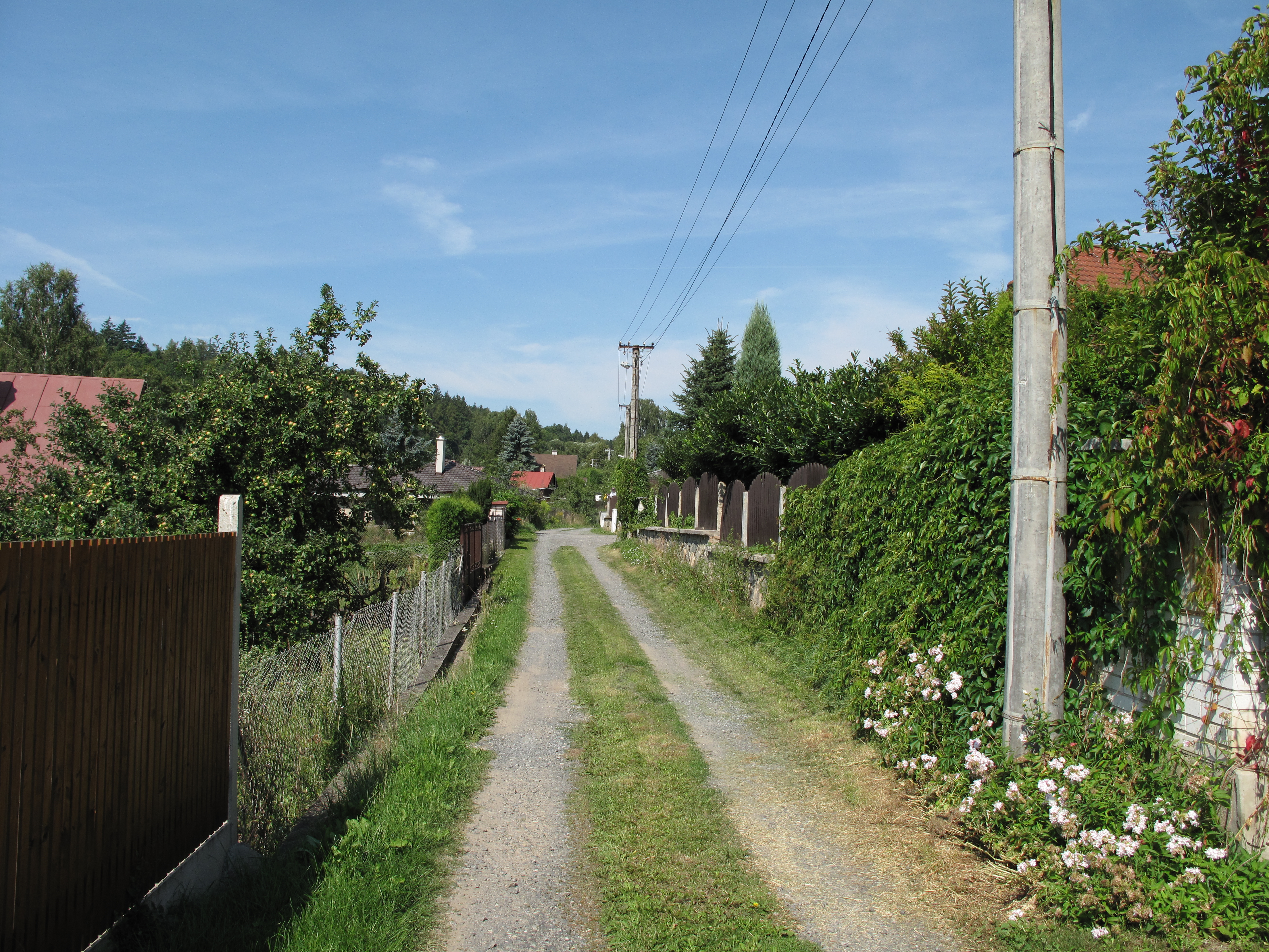 Gardens by dirt road in Krámský village, Prague-East Distrct, Czech Republic.